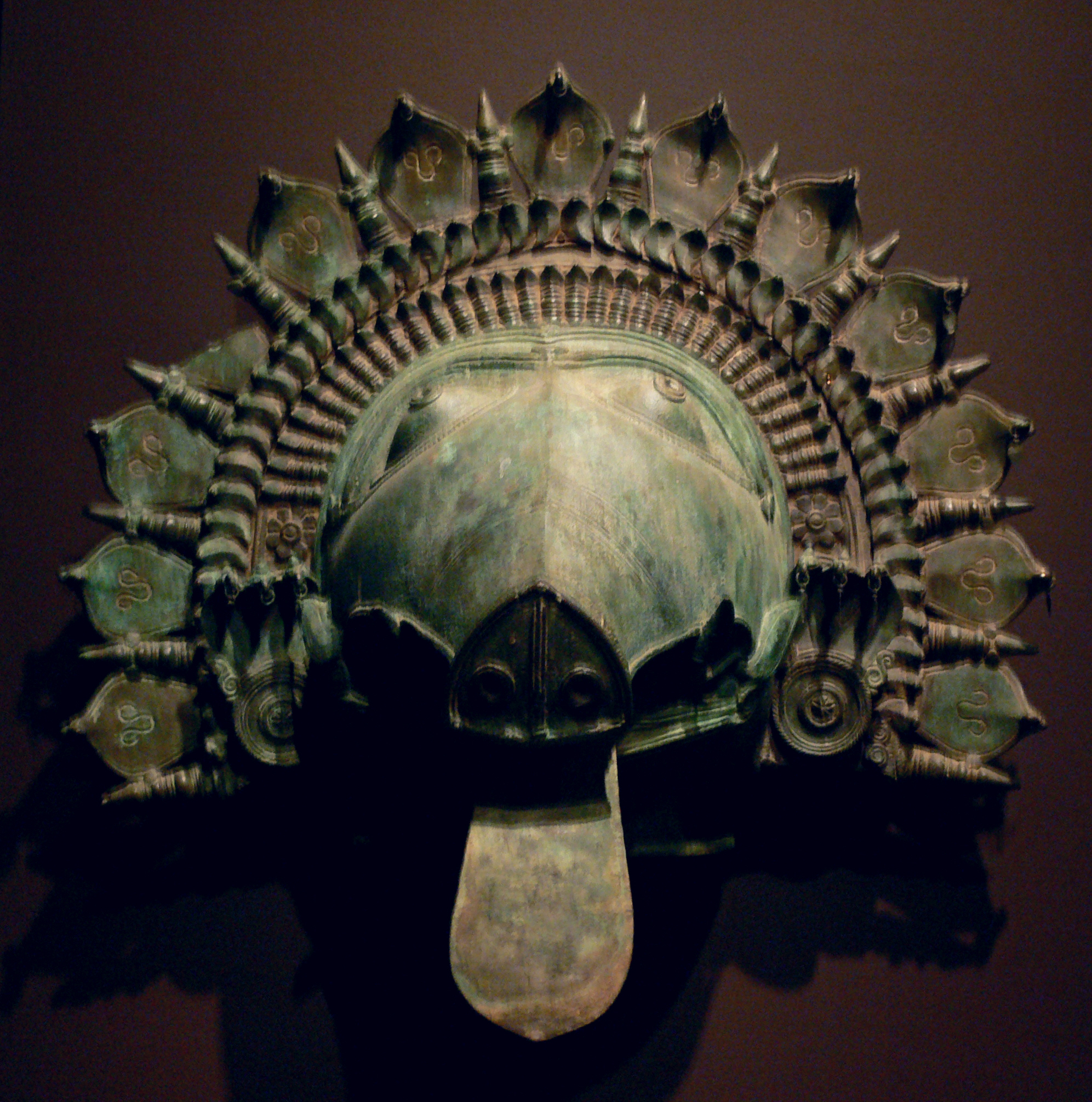 Boar-bhuta mask; India, 18th–19th century; Bronze; 43.2 x 45.7 x 33 cm Dallas Museum of Art, Dallas, Texas; gift of David T. Owsley via the Alvin and Lucy Owsley Foundation, object number 2000.321